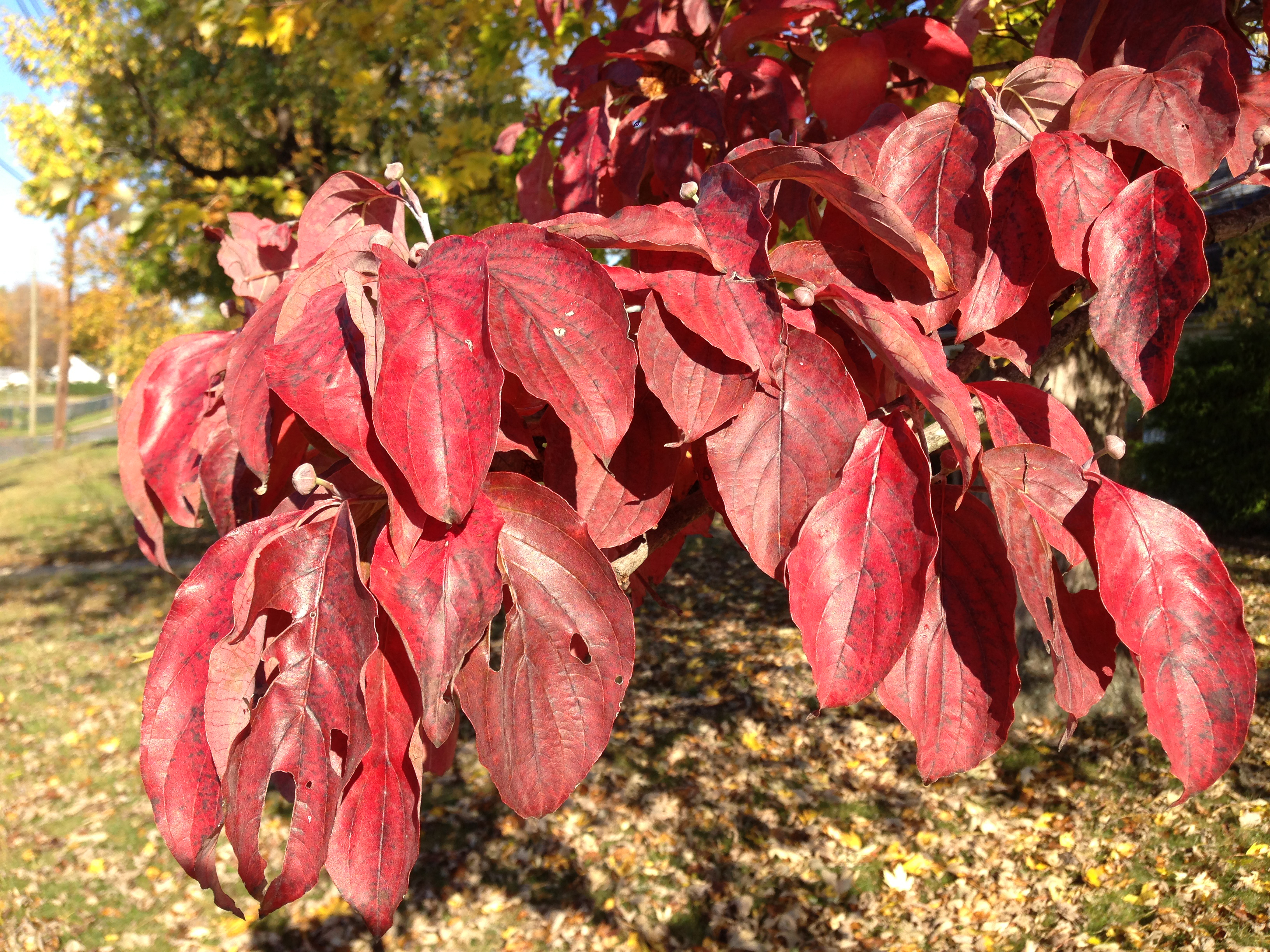 Flowering Dogwood foliage during autumn on Glen Mawr Drive in Ewing, New Jersey